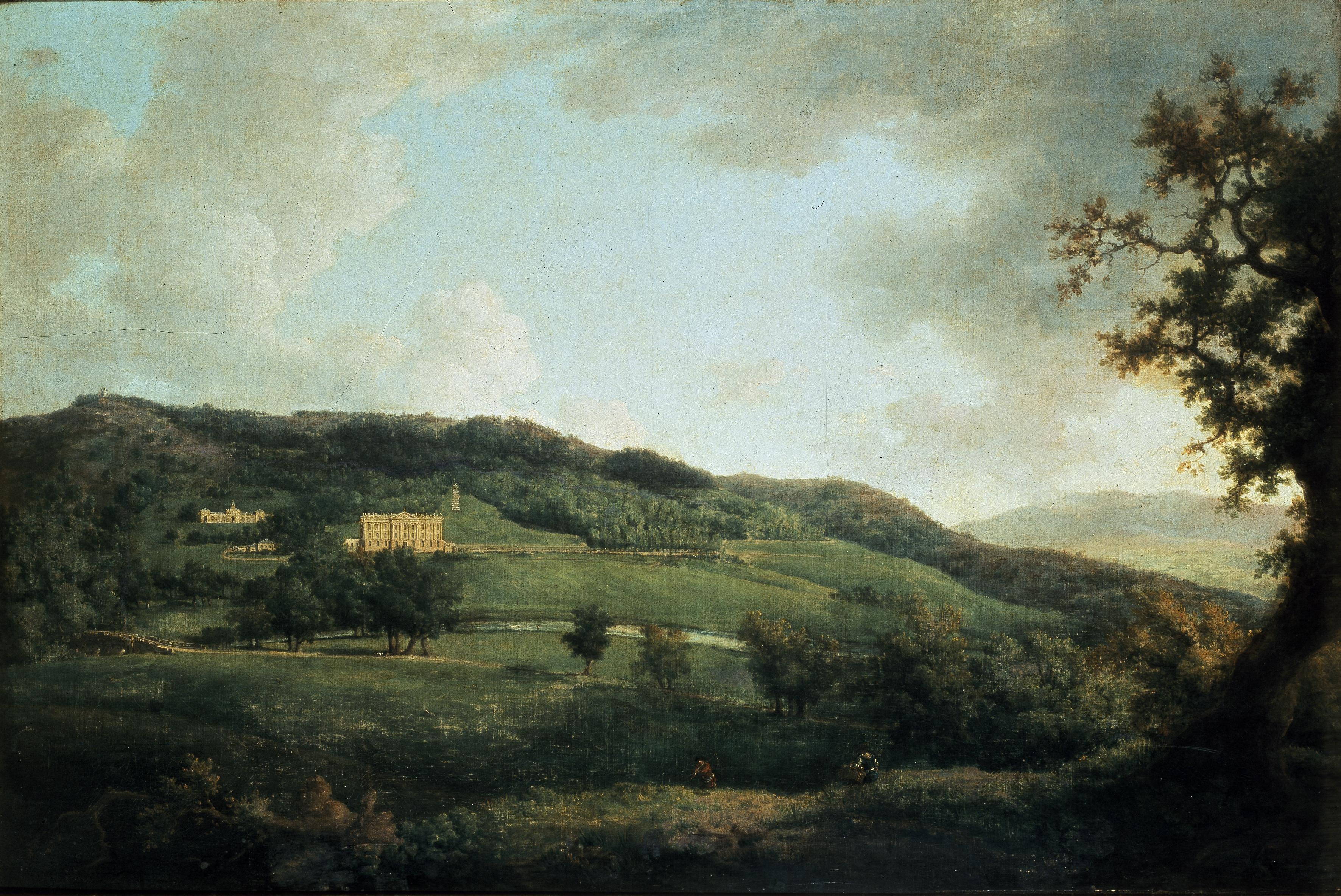 An oil painting showing the west front of Chatsworth House in the 18th century, painted by William Marlow (1740–1813). The stable block is to the left of the house and the cascade to the right. The north wing had not been built. This picture emphasises the romantic aspect of Chatsworth's setting on the edge of the Peak District. The hills behind house were windswept moorland when it was built. They were not forested until the 18th century, and are still partially exposed in this view.